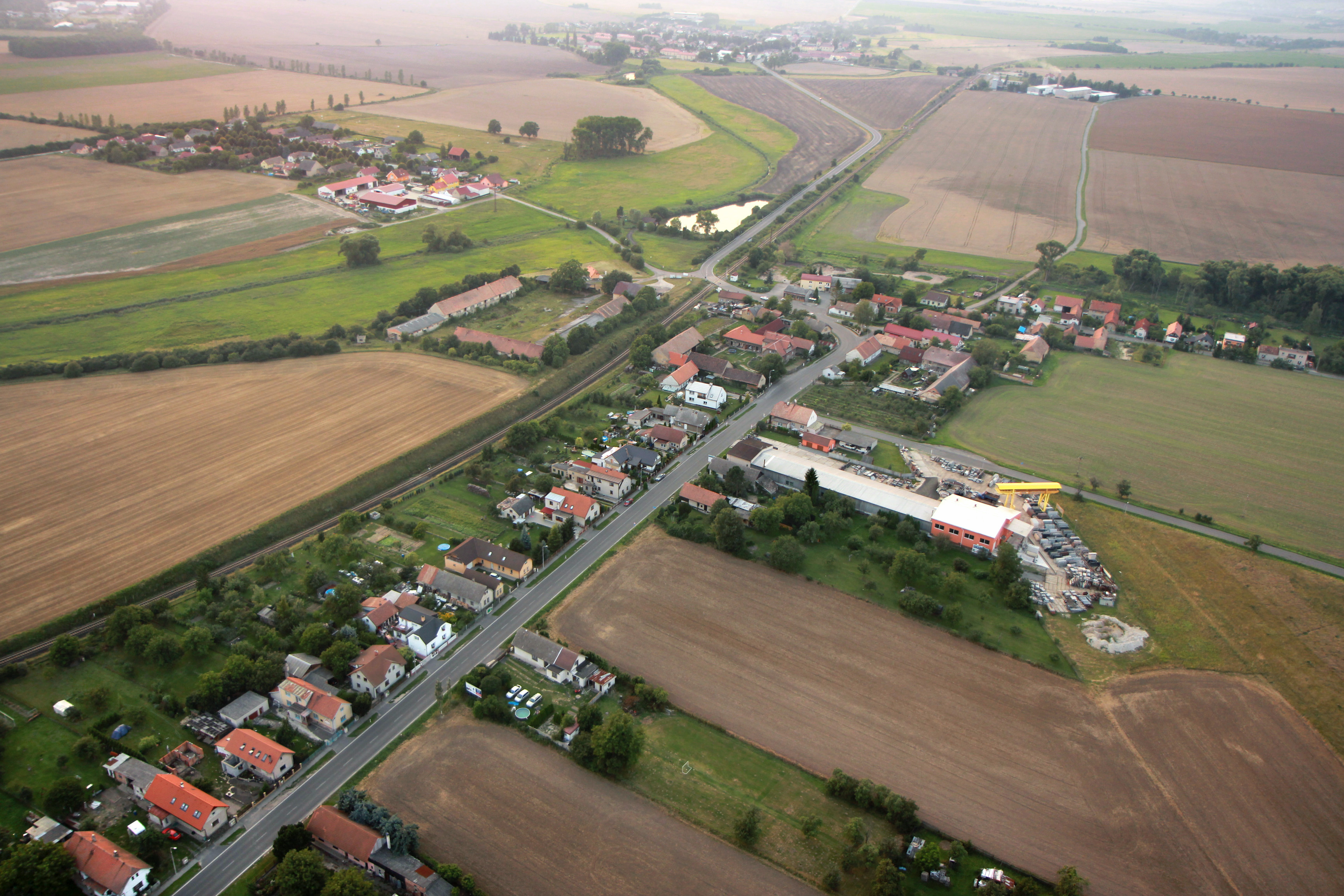 Aerial view of Újezd, part of Smilovice village, Czech Republic